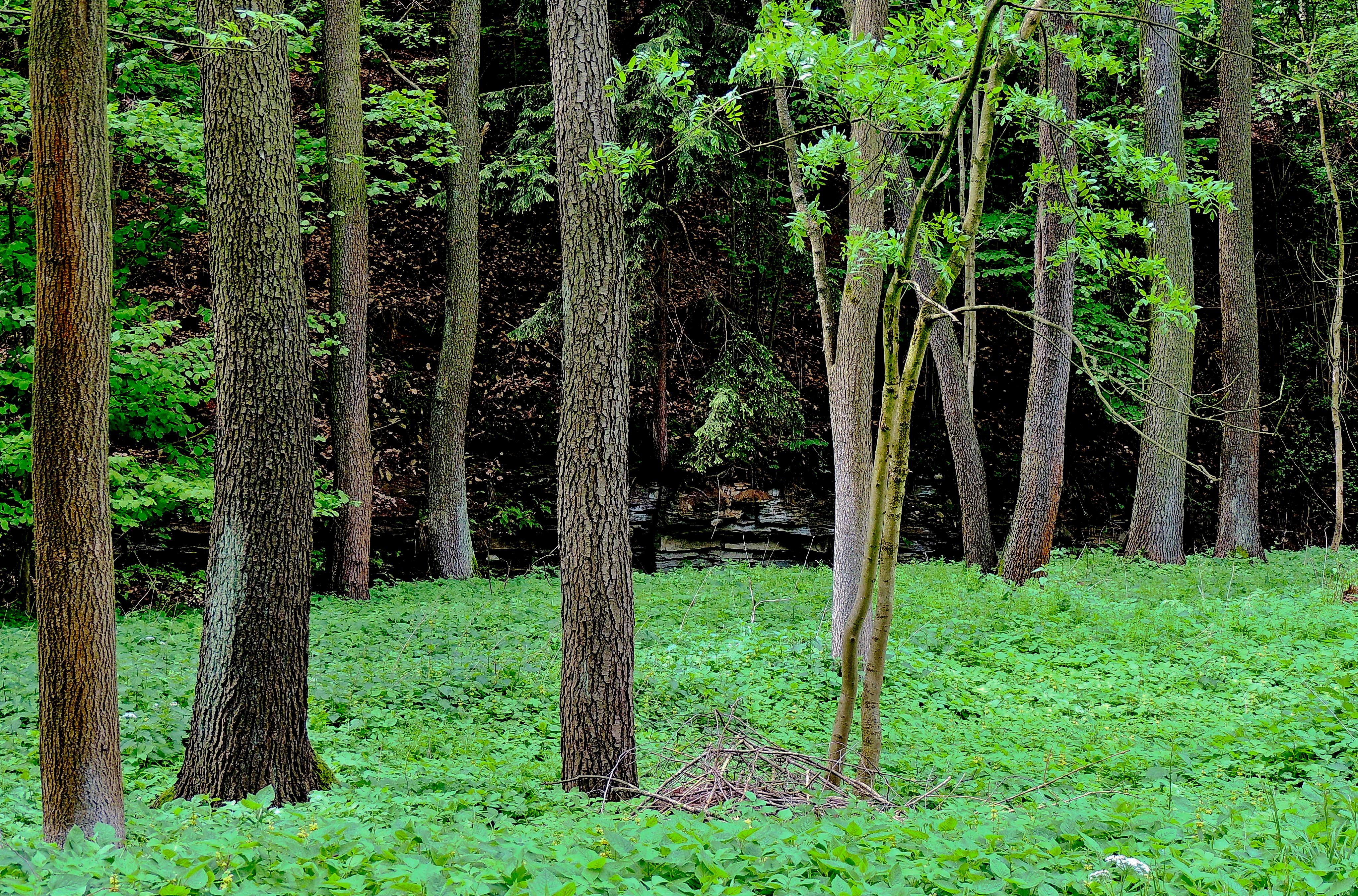 The vegetation in a nature reserve and locality of European importance with named Valley of Anny. Photo location - Czechia, Pardubice Region, Skuteč town.